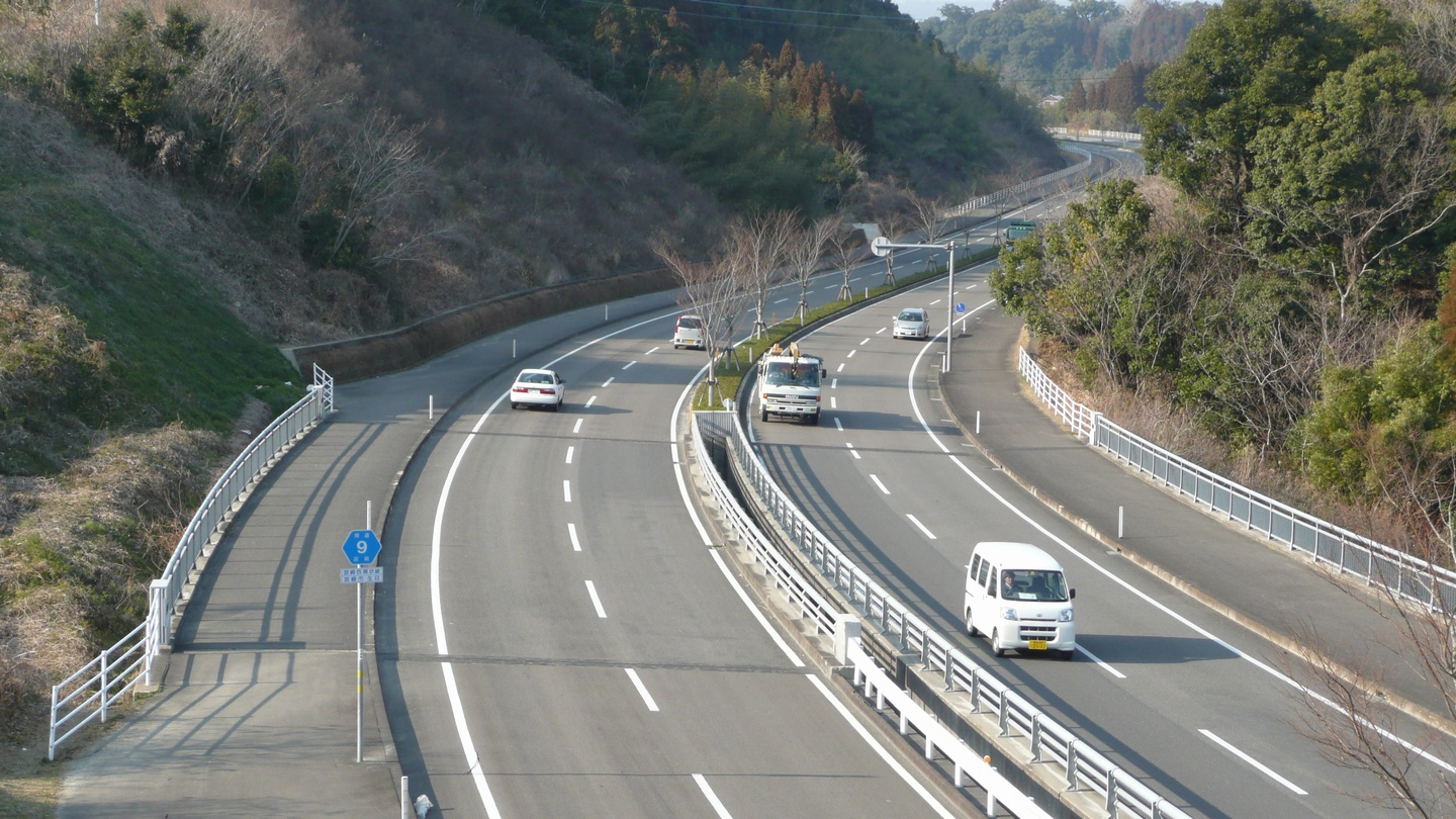 Miyazaki Prefectural Road 9 (Ikimedai, Miyazaki City, Japan)